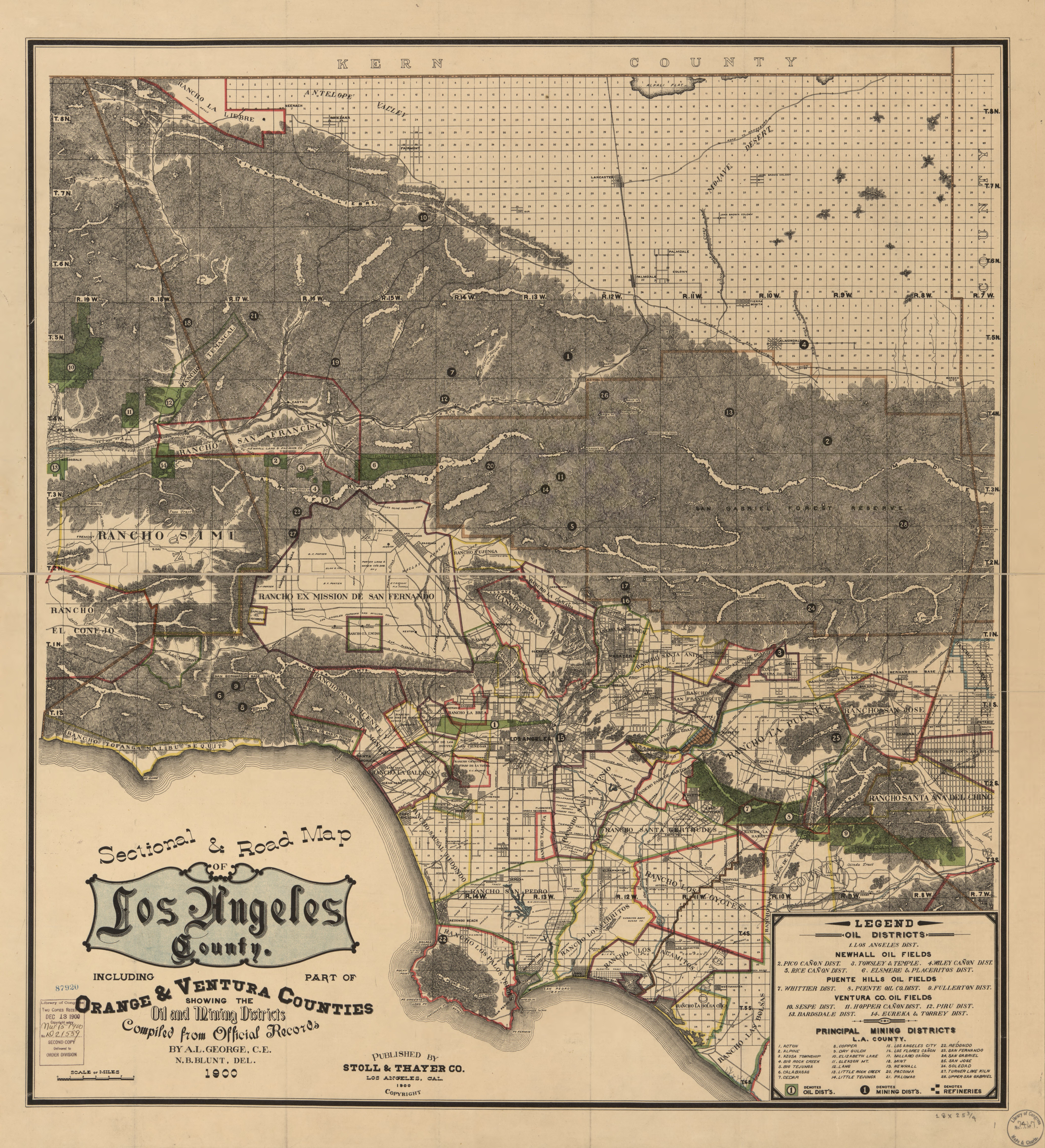 Relief shown by hachures. Partial cadastral map showing roads, locations of old ranchos, oil districts, mining districts, and refineries. LC Land ownership maps, 25 Available also through the Library of Congress Web site as a raster image.